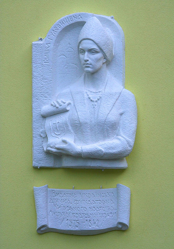 The relief in the Church of Lutsk Orthodox Fellowship of True Cross